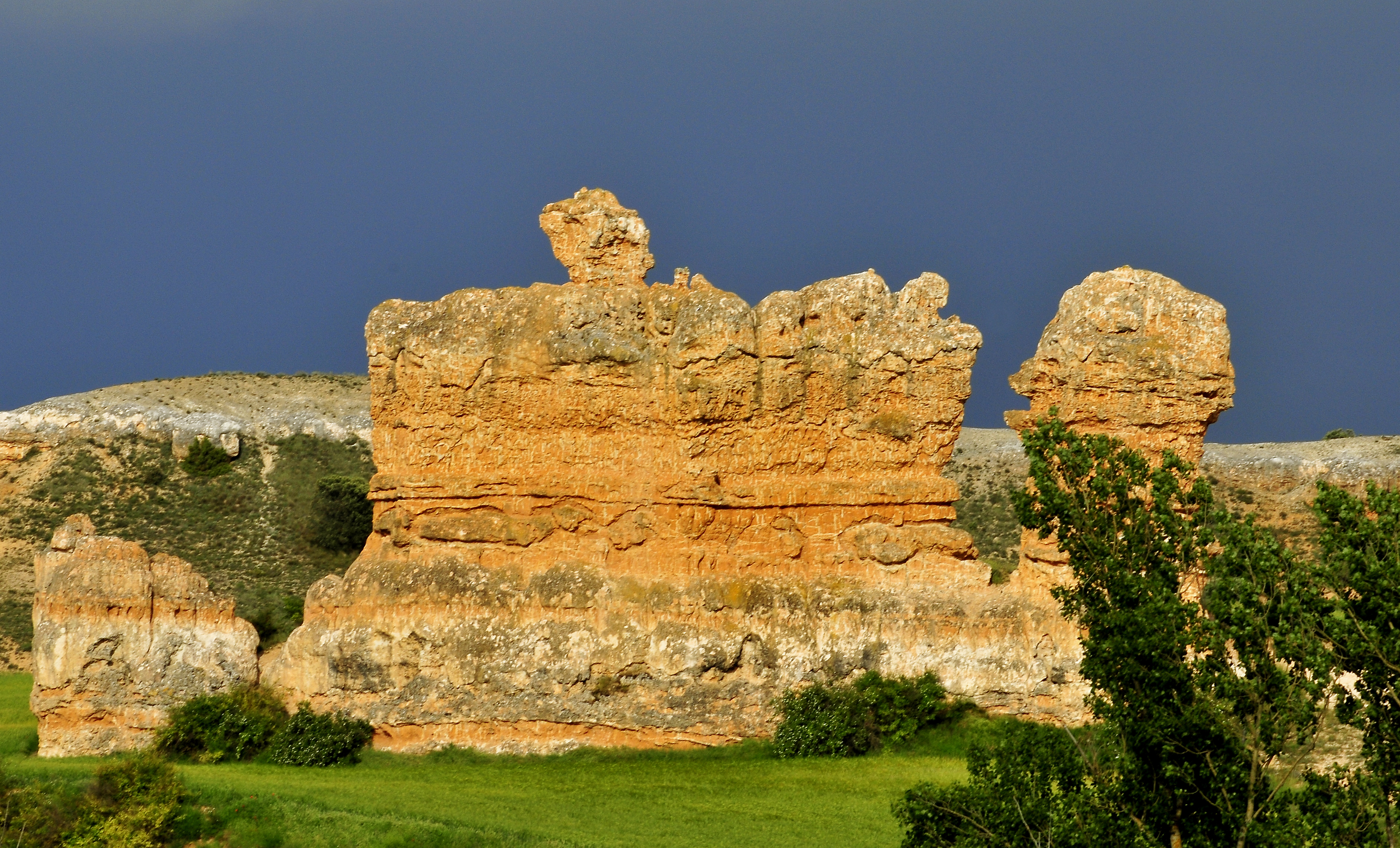 Sedimentary rocks formation. Bocigas de Perales (Langa del Castillo, Soria, Castile and León, Spain